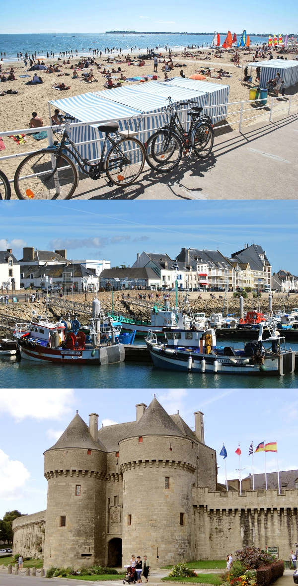 La Baule Beach // La Turballe habour // Guérande city walls